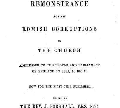 "Remonstrance against Romish corruptions in the Church" as the English version of the 1395 Latin manuscript xxxvii Conclusions Lollardorum.